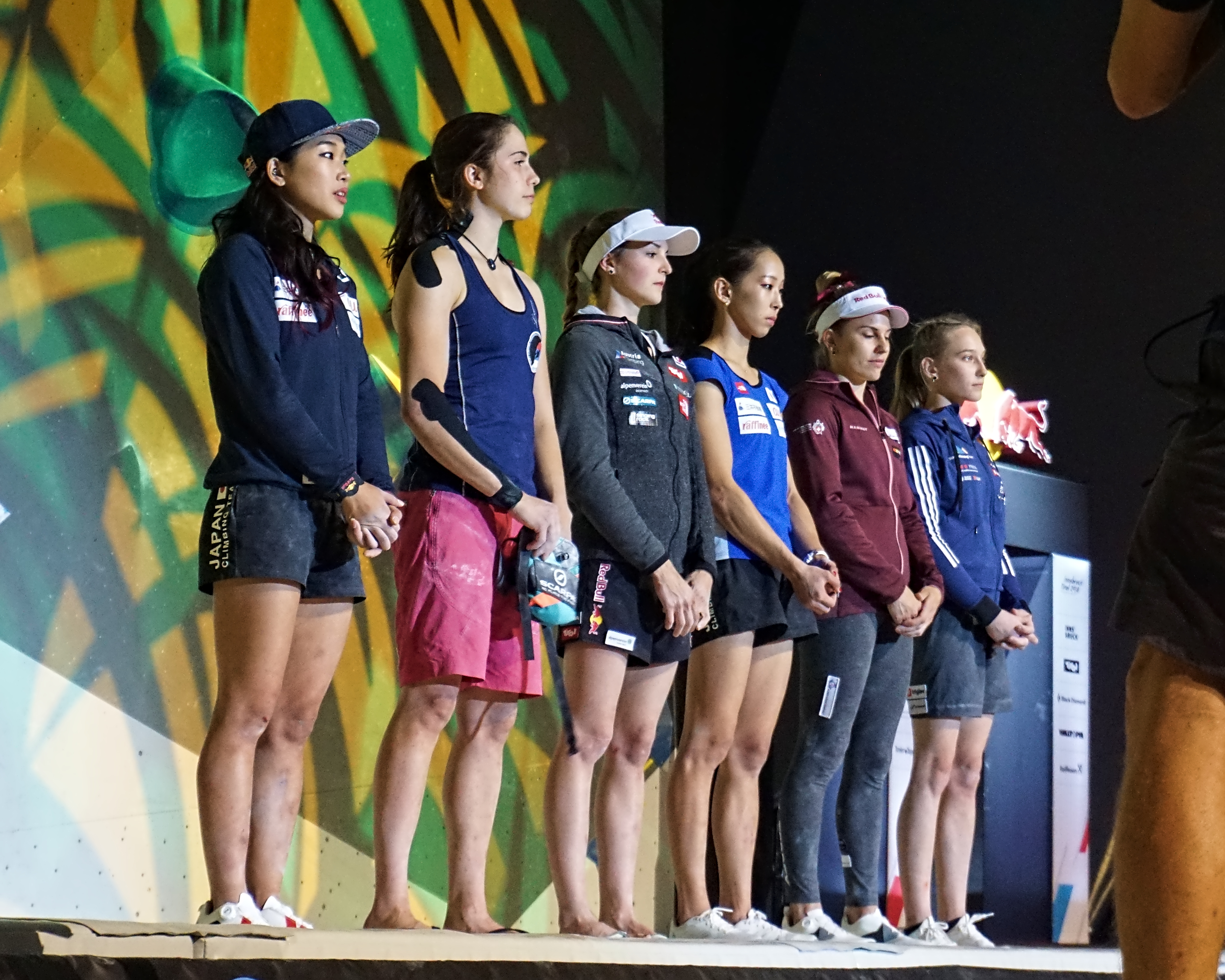 Climbing World Championships 2018 Boulder Final Woman finalists